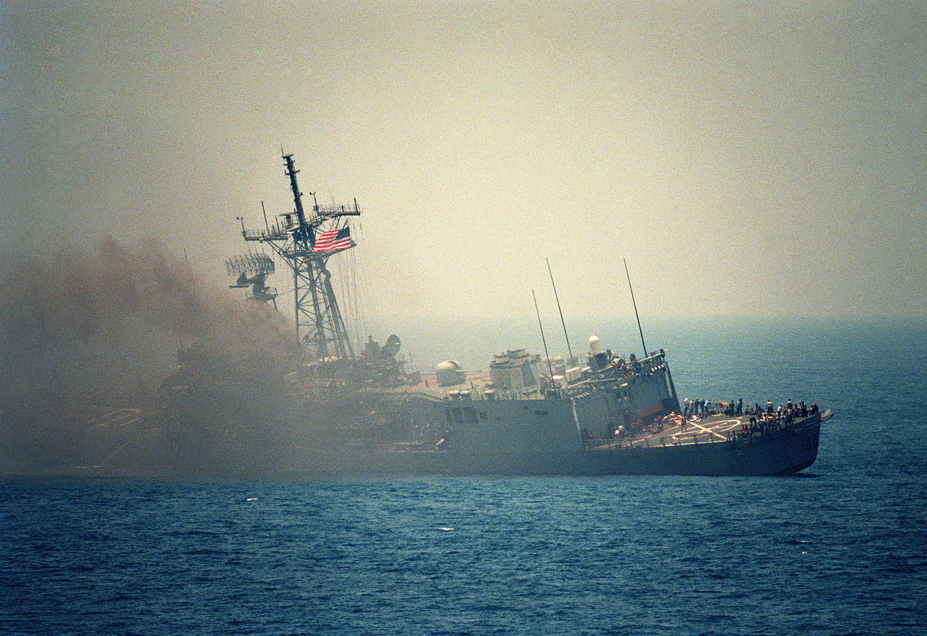 A port quarter view of the guided missile frigate USS Stark (FFG-31) listing to port after being struck by an Iraqi-launched Exocet missile.